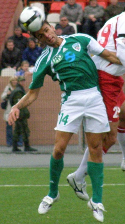 Valentin Iliev in action for FC Terek